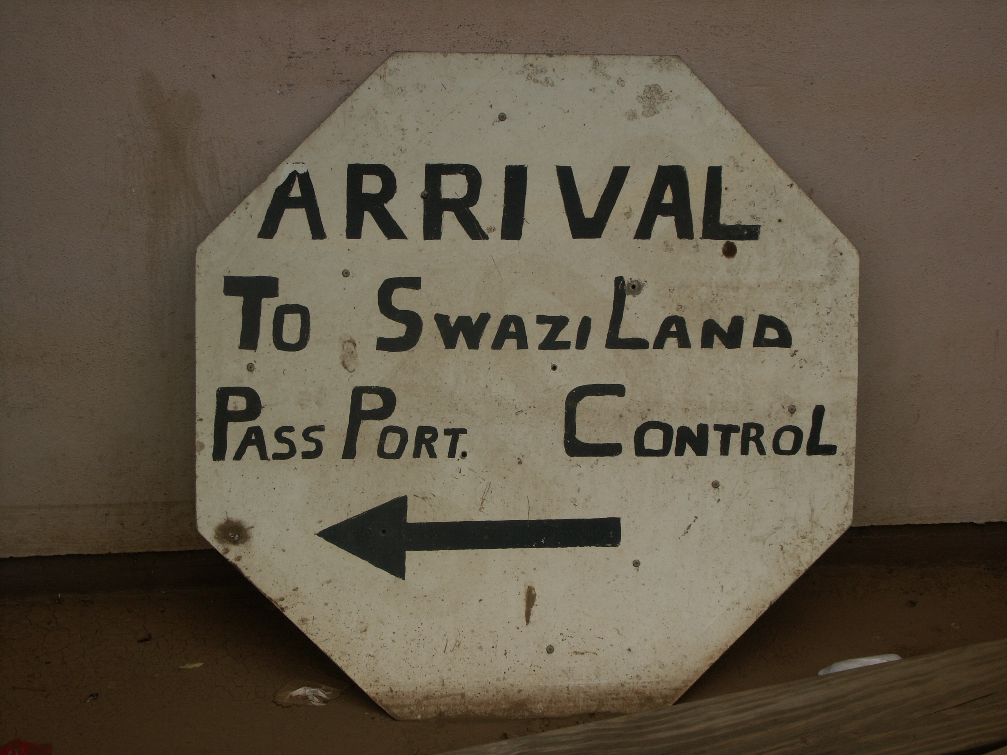 Sign at the Golela border post.